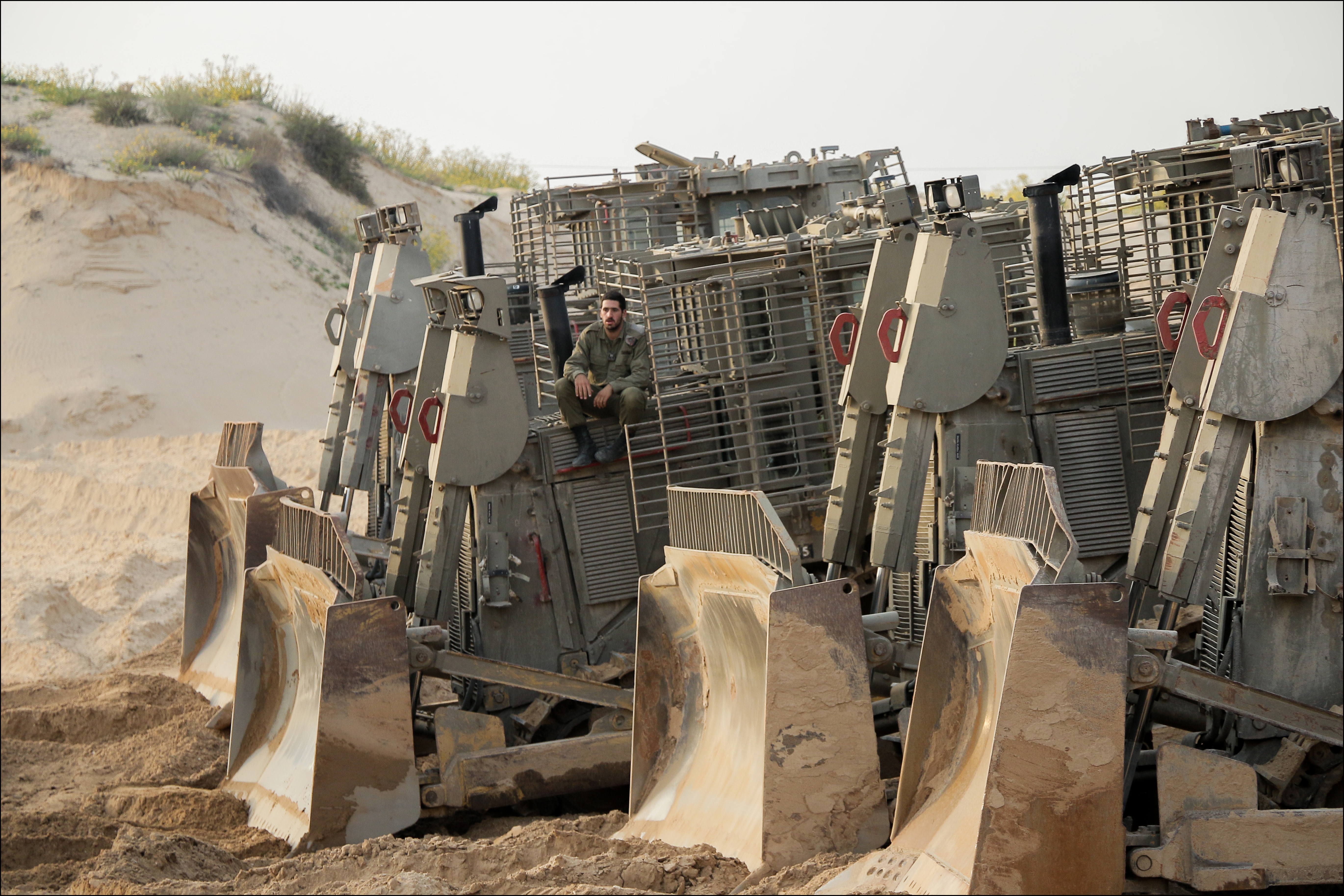 Combat engineers resting on IDF Caterpillar D9R armored bulldozers